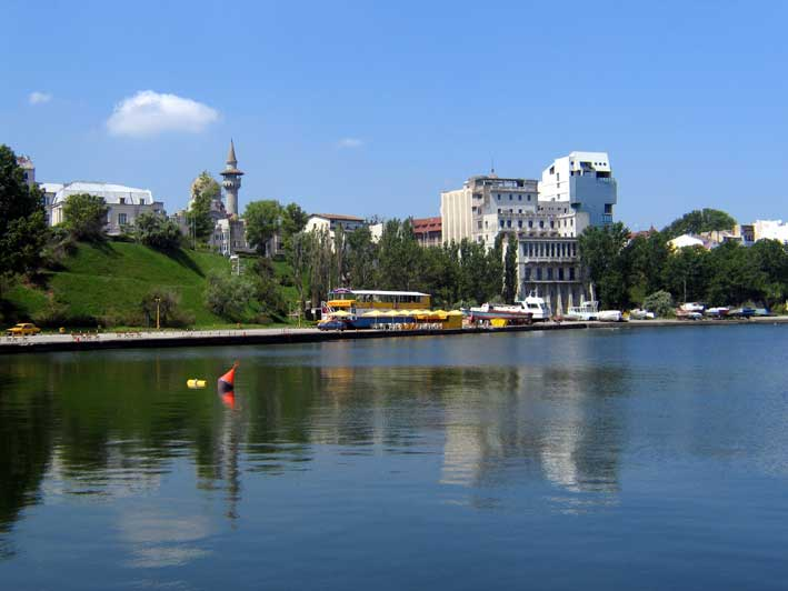 Tomis harbour, Constanta, Black Sea, Romania